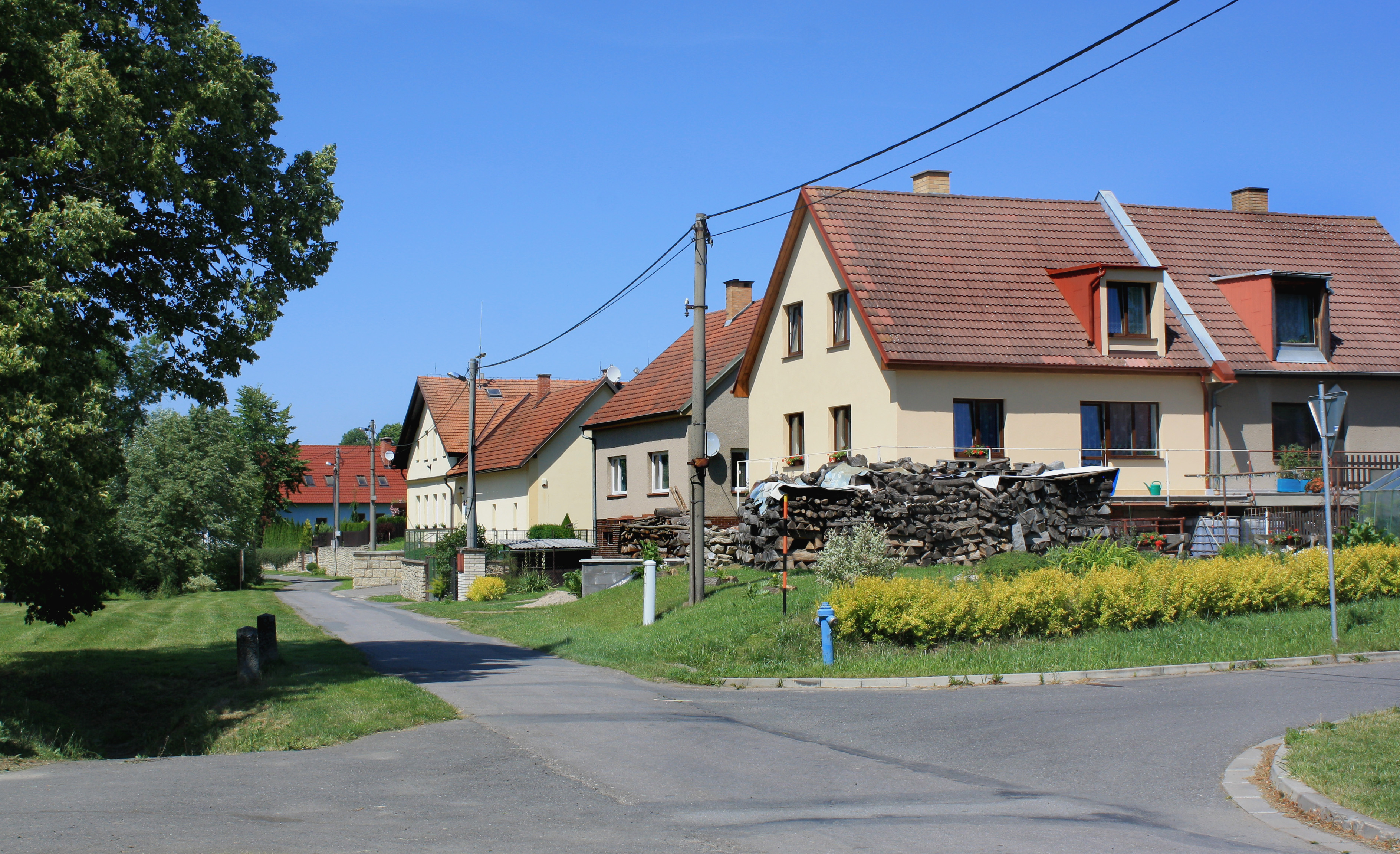 Side street in Benátky, Czech Republic